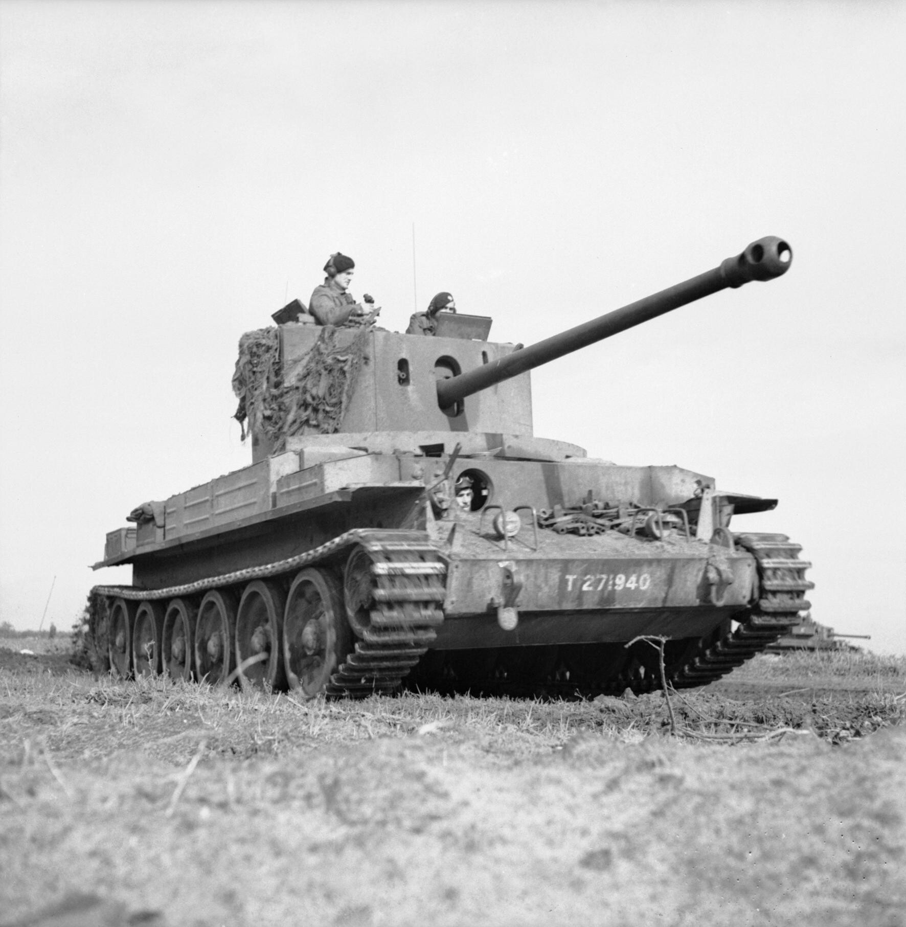 A Challenger tank of 15th/19th Hussars, 11th Armoured Division, Holland, 17 October 1944. Challenger tank of 15/19th Hussars, 11th Armoured Division, Holland, 17 October 1944.